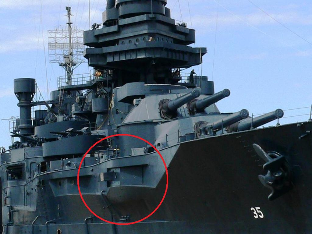 Public domain picture cropped and highlighted for use in English Wikipedia article "Operation Crossroads."